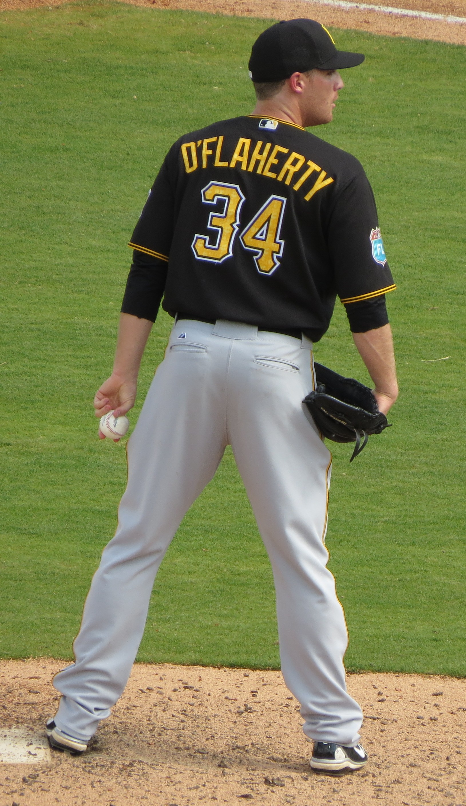 Eric O'Flaherty